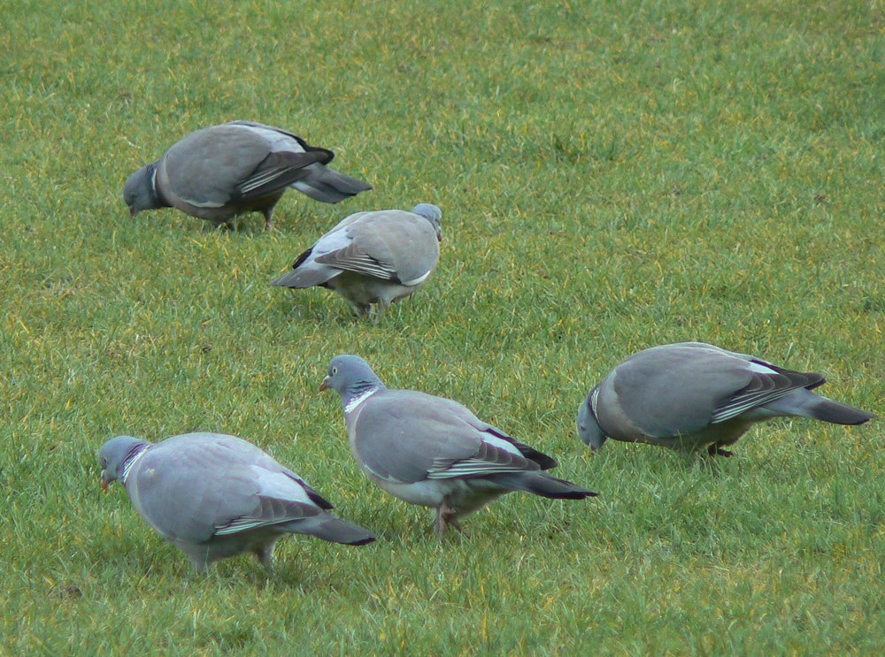 Taken in Regents Park More on: UK wildlife blog